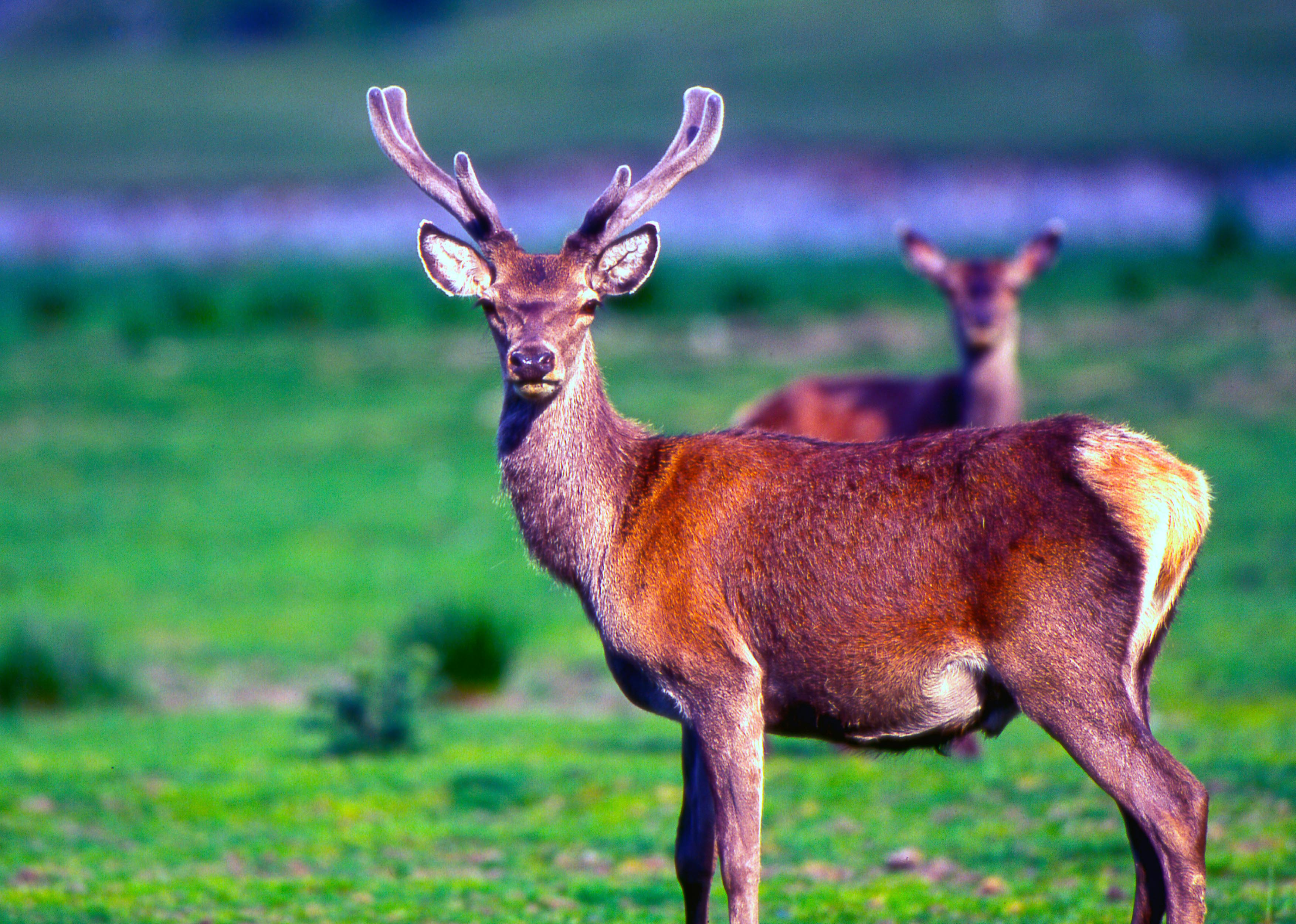 A red deer (Cervus elaphus) in Scotland, United Kingdom.